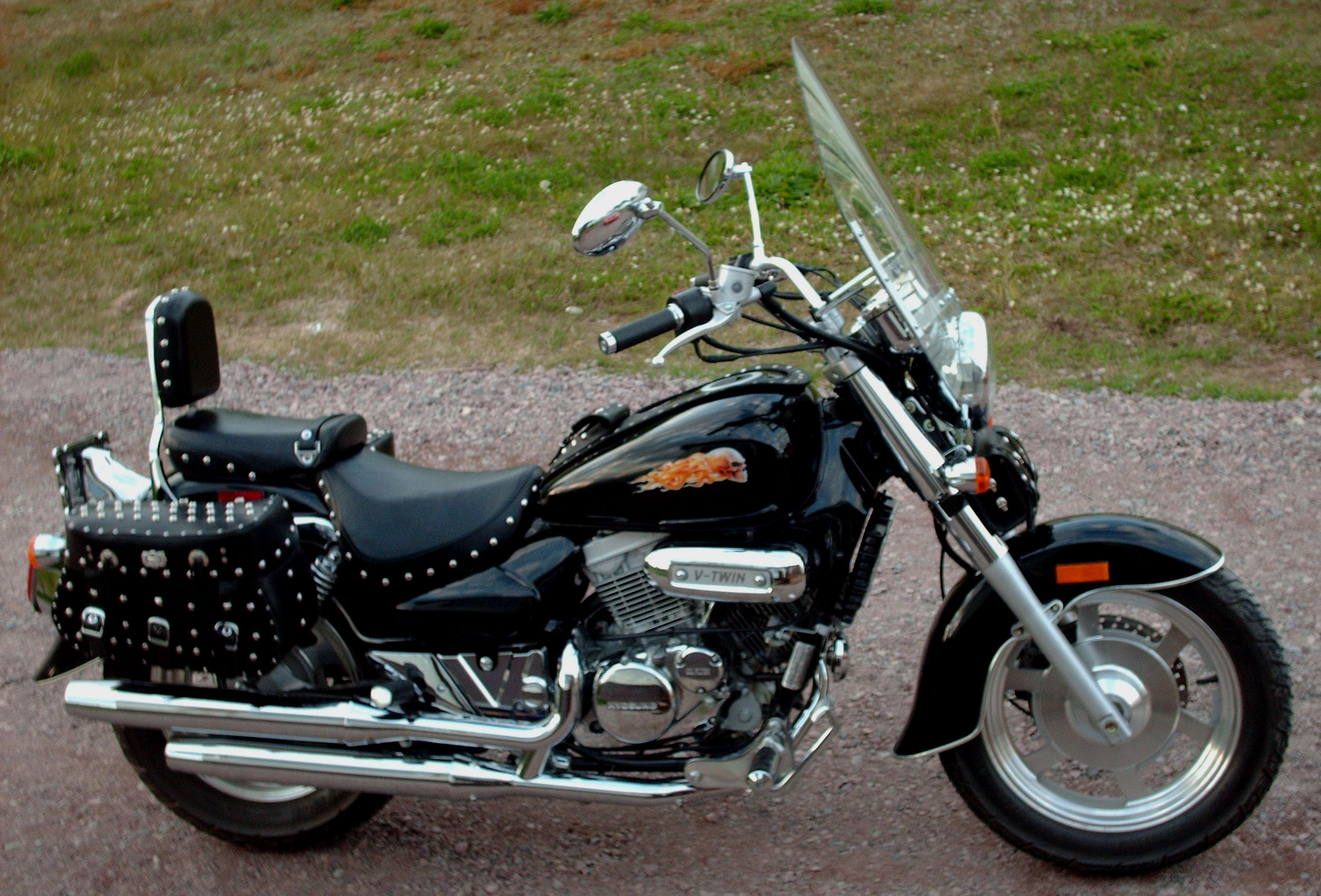 Hyosung GV250 Aquila